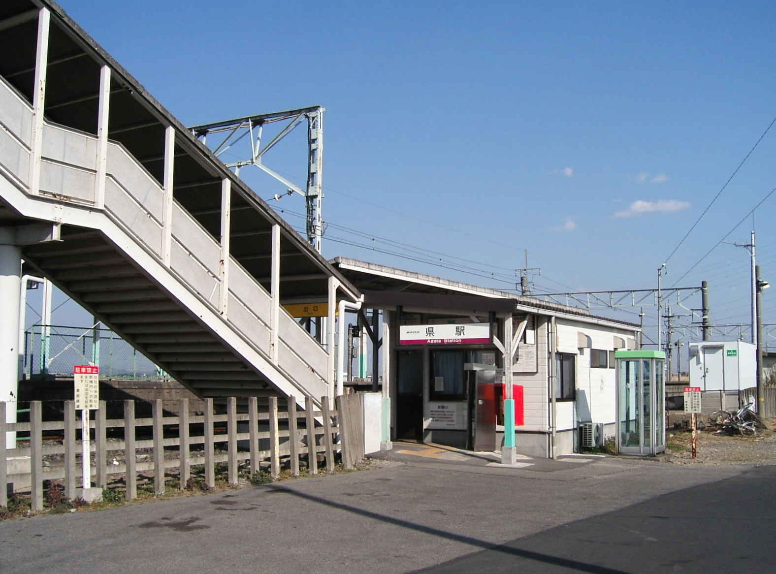 Agata station on the Tobu Isesaki Line in Ashikaga, Tochigi Prefecture, Japan